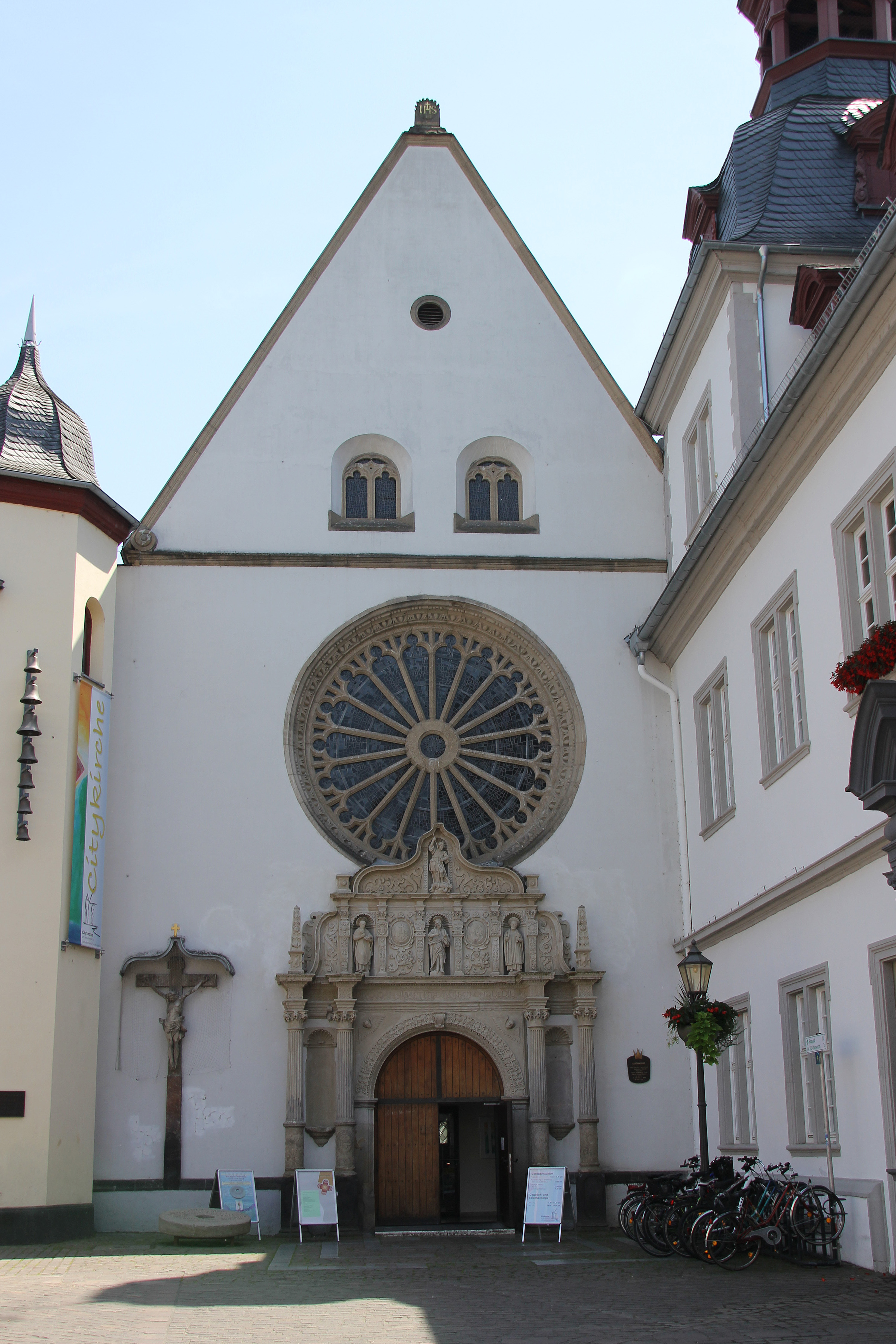 Jesuitenkirche in Koblenz